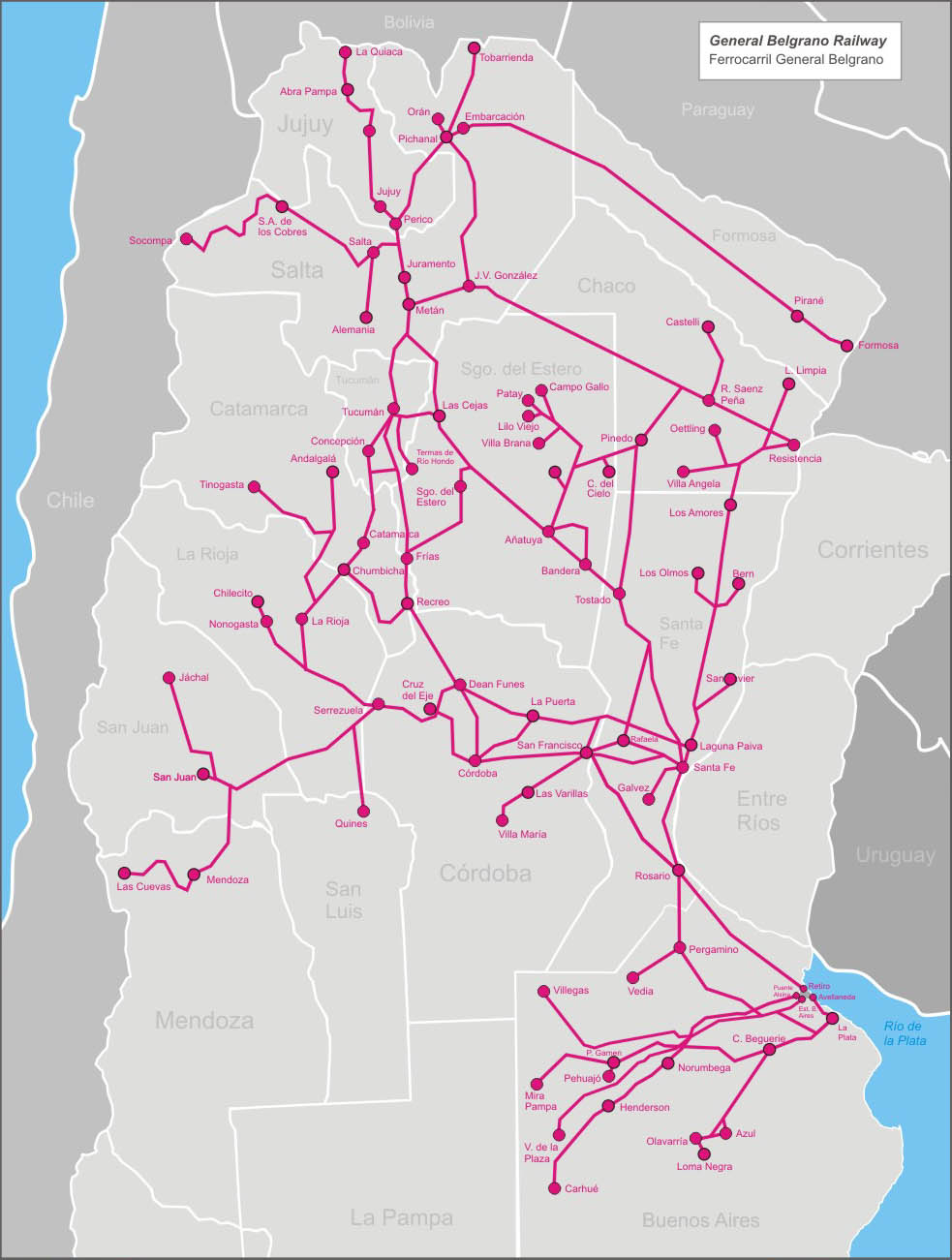 Map of General Manuel Belgrano Railway, the largest of Argentina.